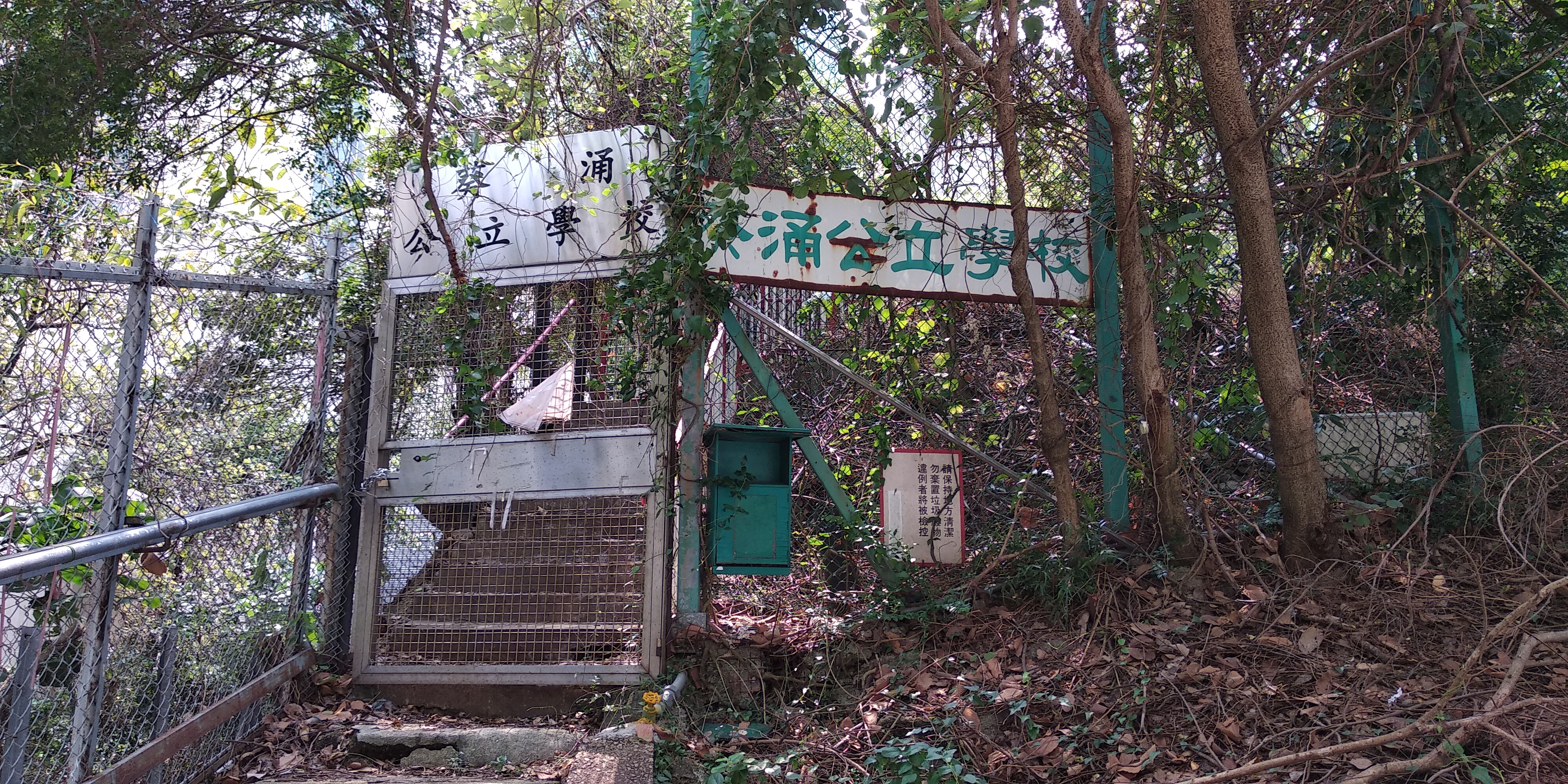 Kwai Chung Public School gate at Kwok Shui Road.